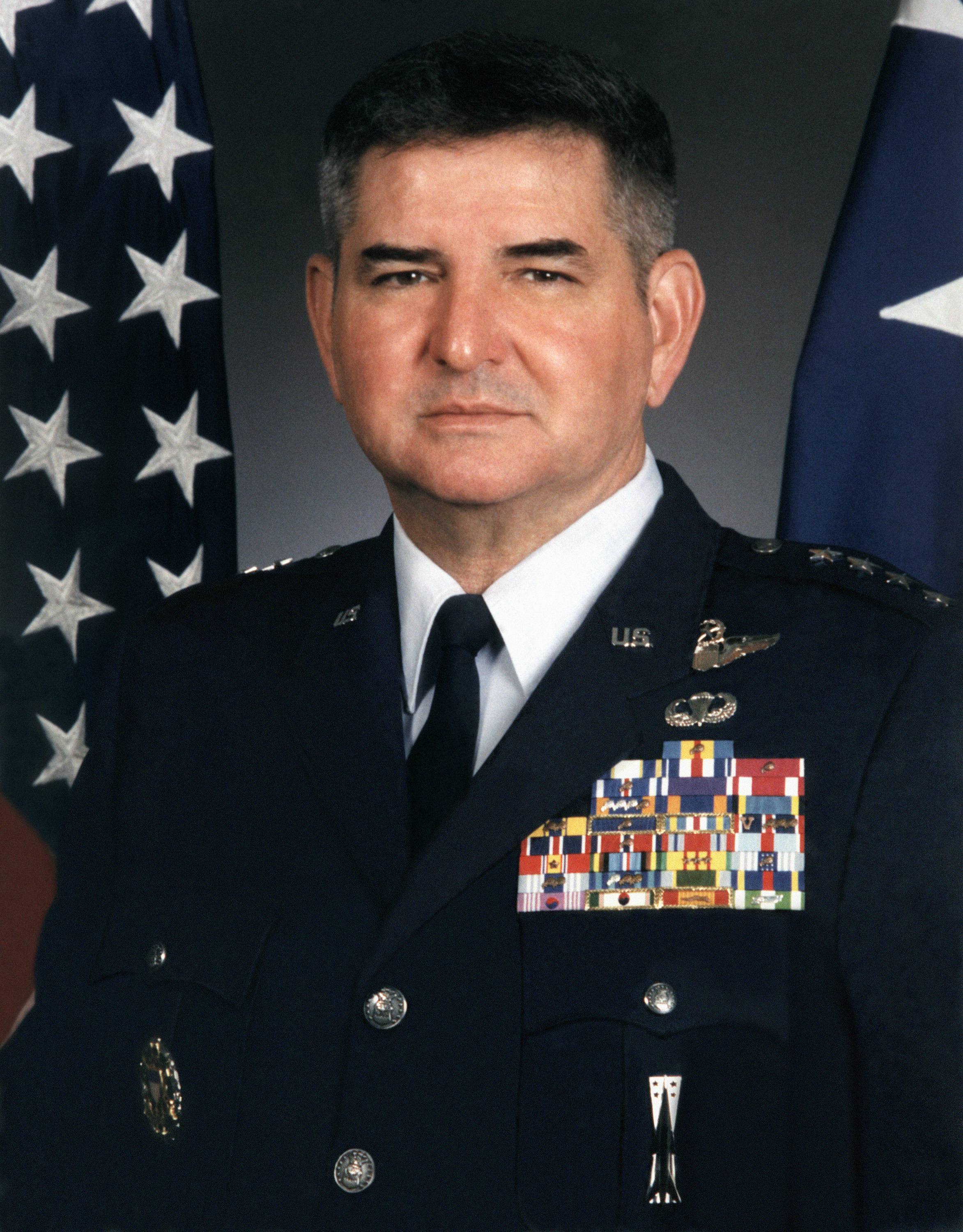 Ronald R. Fogleman, former Chief of Staff of the United States Air Force